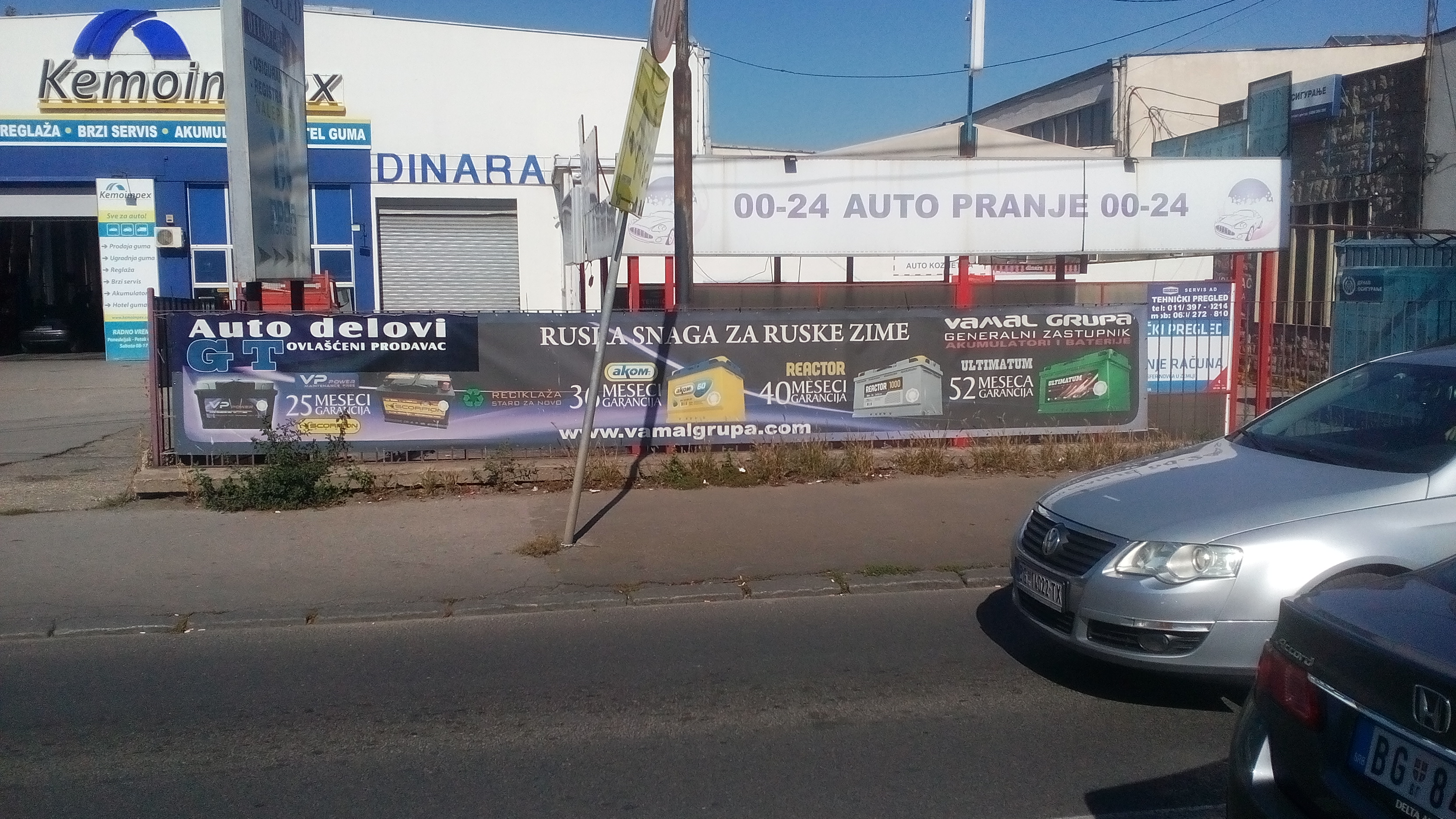 Advertising on one of the streets in Belgrade.